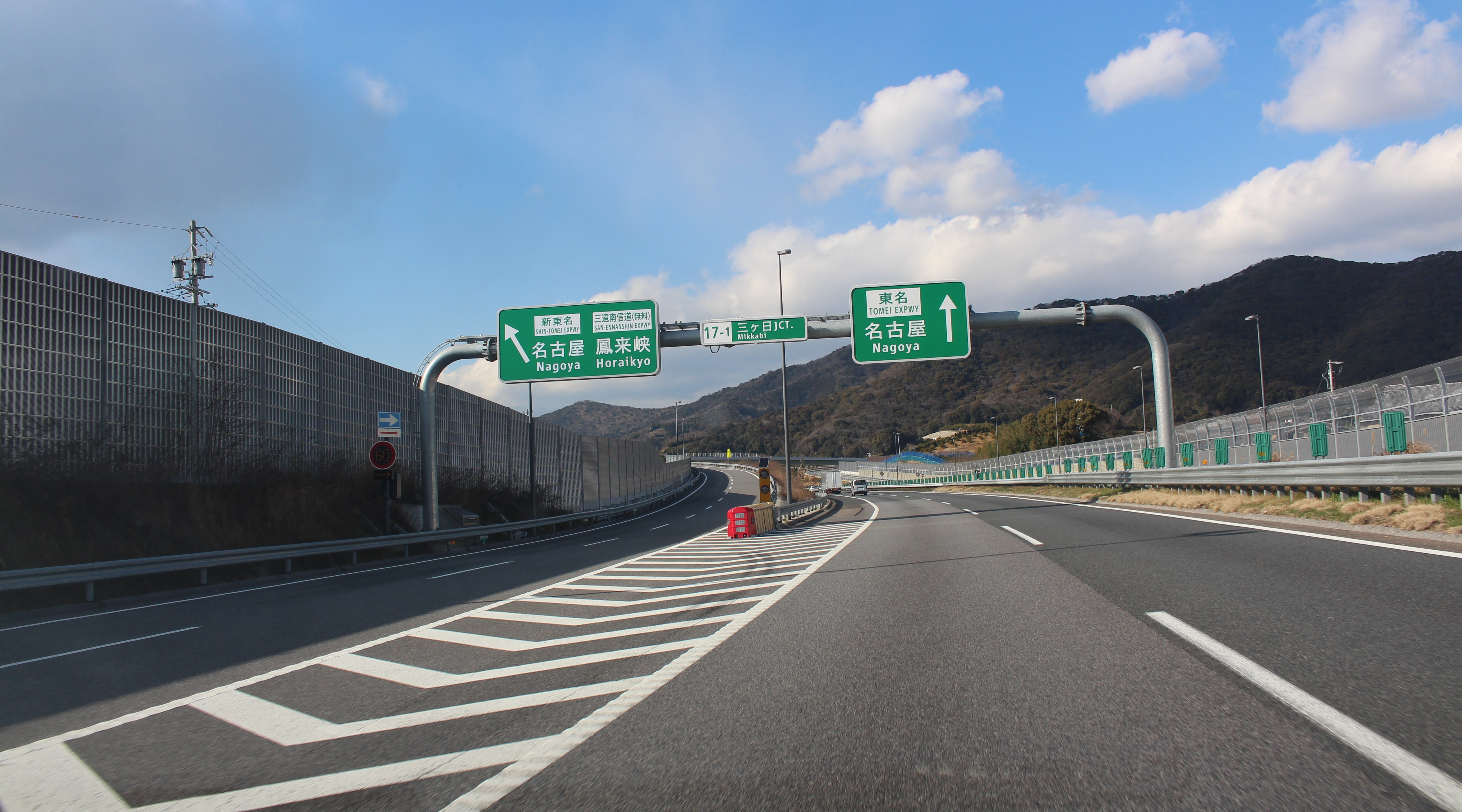 Mikkabi Junction of Tomei Expressway in Hamamatsu, Shizuoka prefecture, Japan.